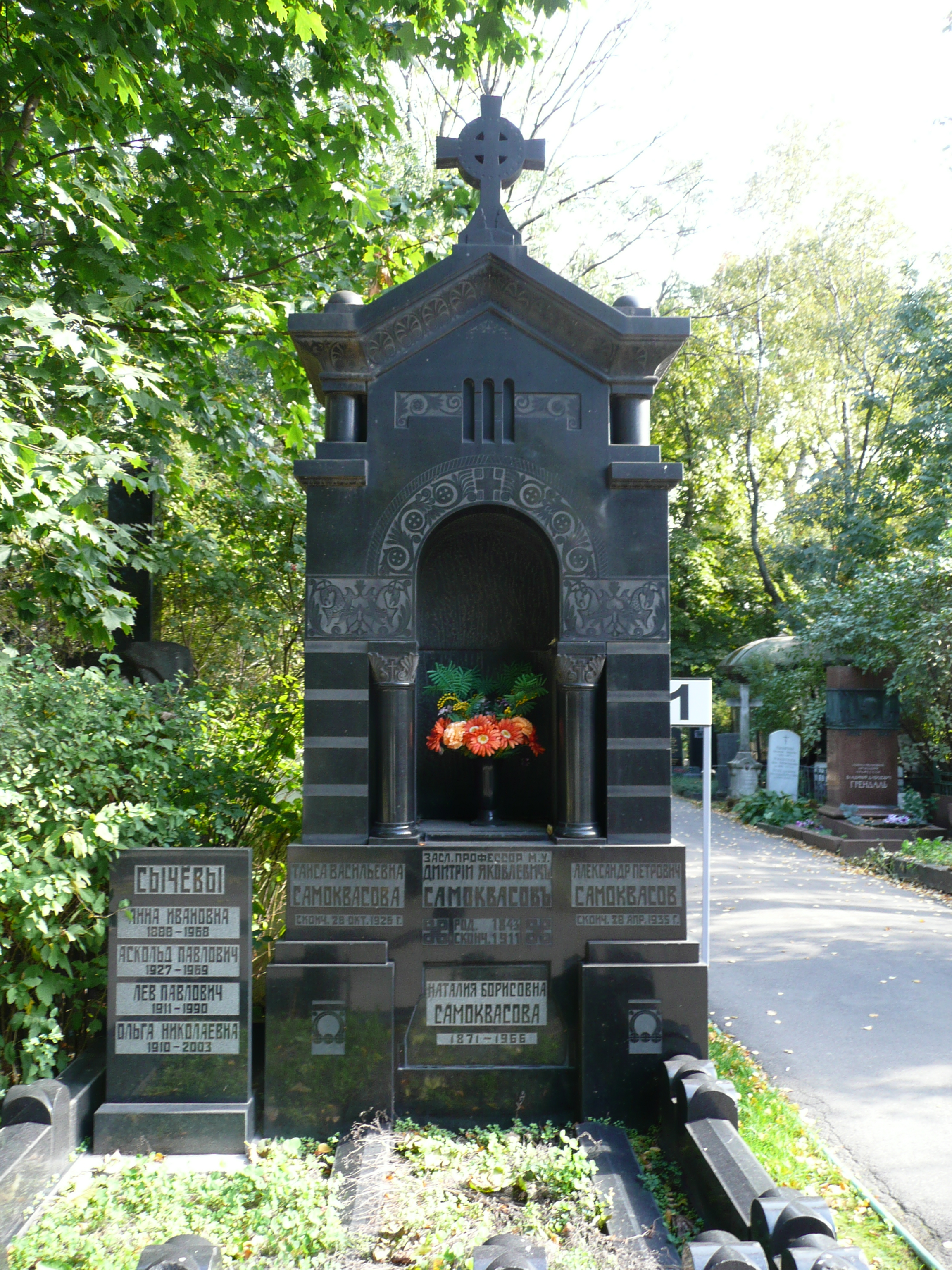 Tomb of Dmitry Samokvasov, Novodevichy Cemetery, Moscow